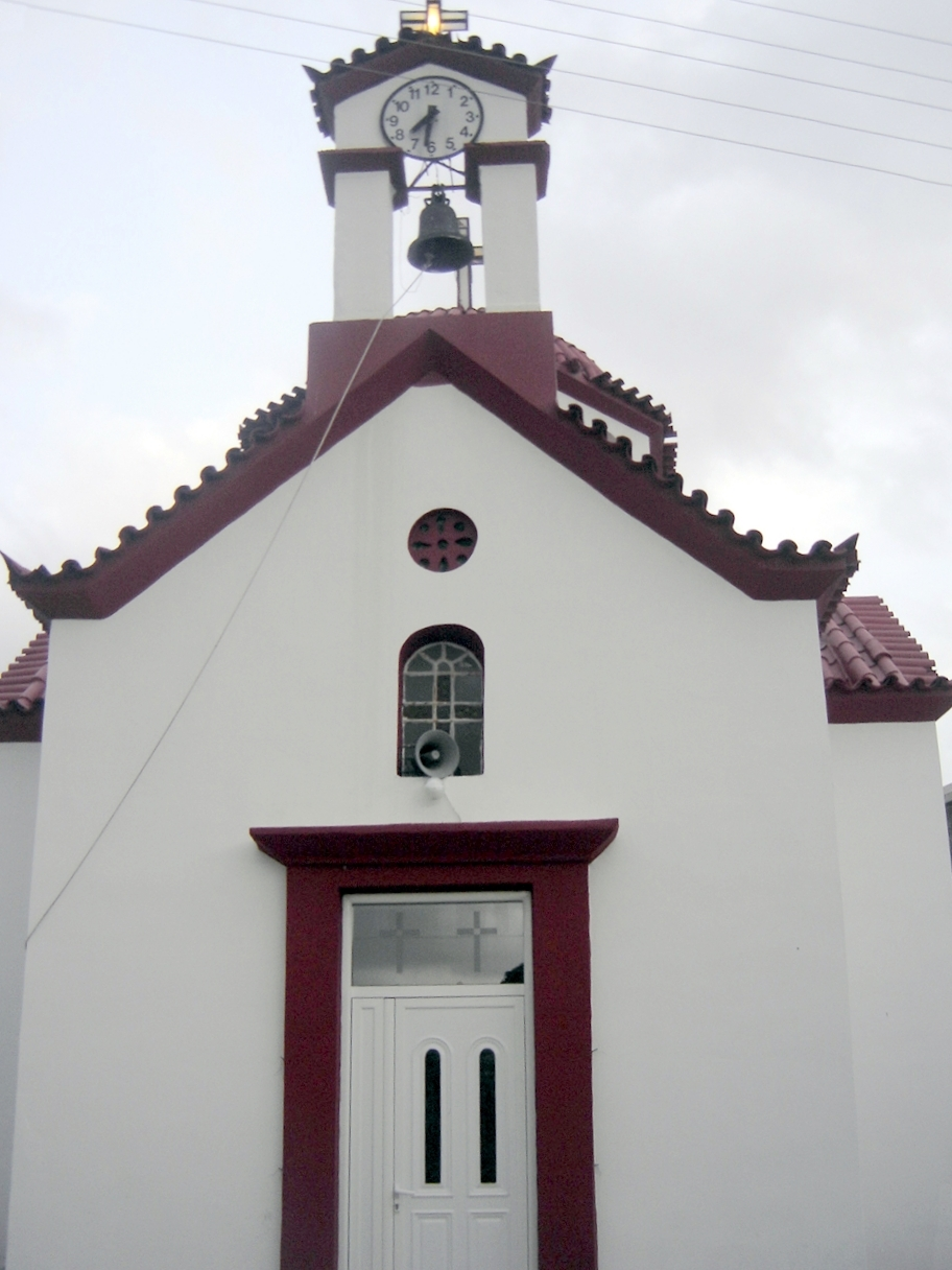 The main church in Hondros.